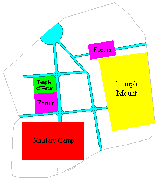 Basic schematic map of Jerusalem, as rebuilt by Hadrian (a reconstruction known as Aelia Capitolina), showing the two main north-south roads (Cardo Maximus and Cardo Minimus), and the two main east-west roads (Decumanus Maximus and Decumanus Minimus) - the northern one is in two halves. It also shows other major landmarks of Roman Jerusalem.